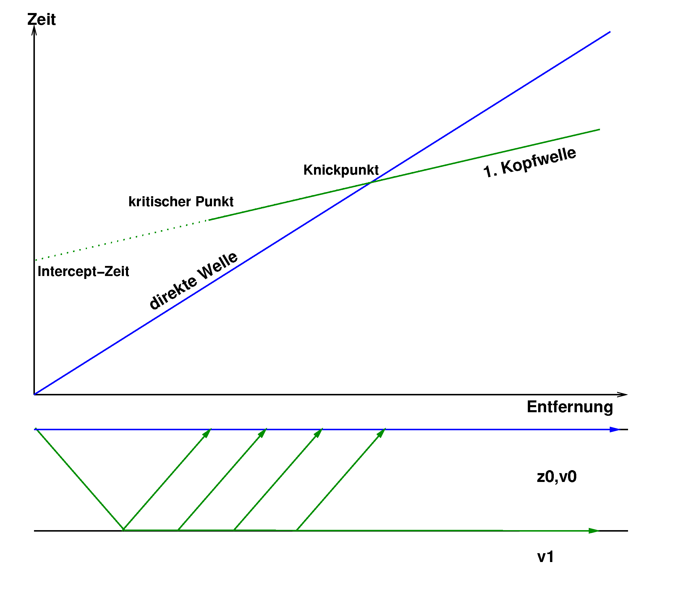 Traveltime curves of the direct (blue) and critically refracted (green) wave. Knickpunkt is the german word for crossover point.